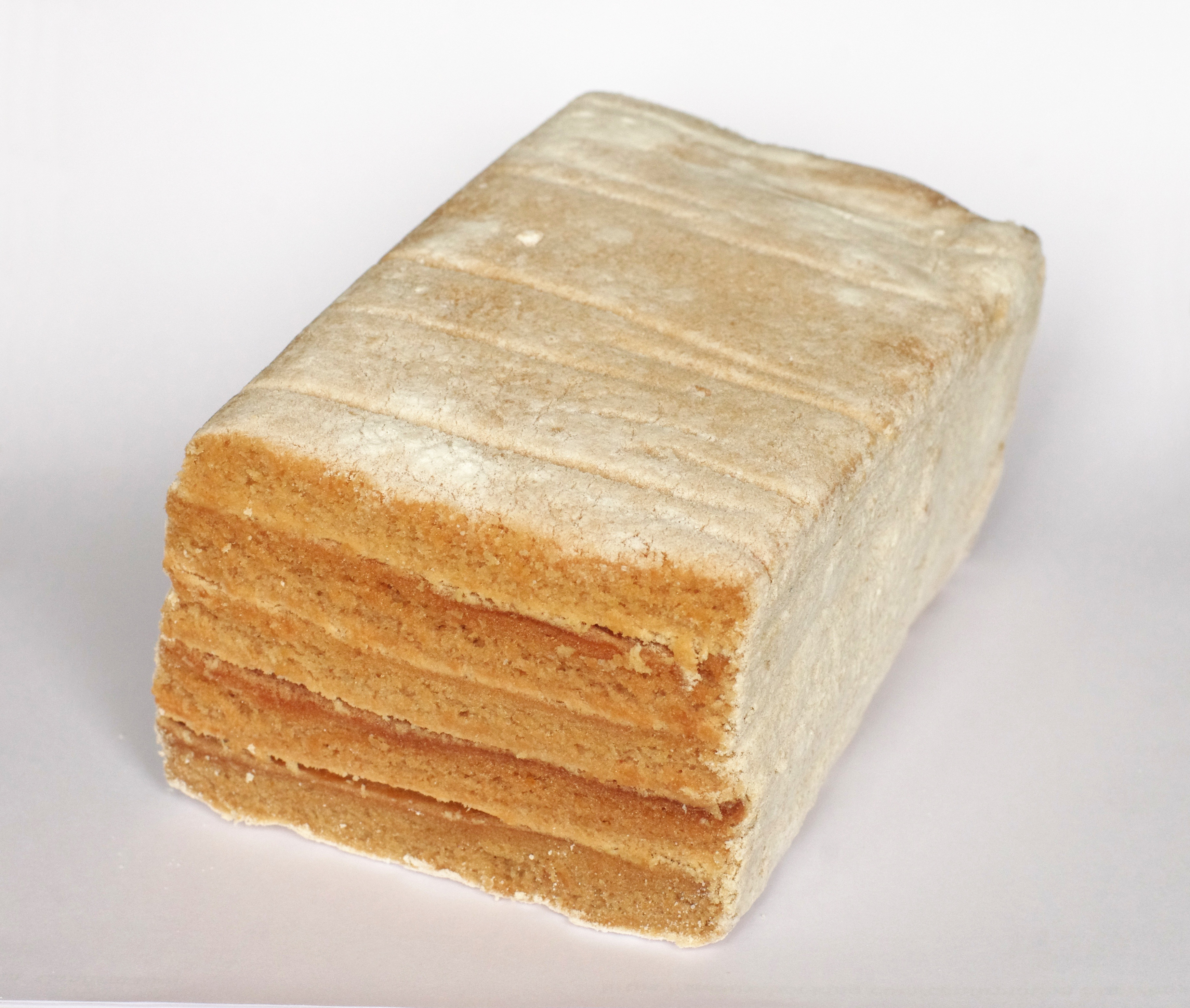 Belyovskaya pastila.